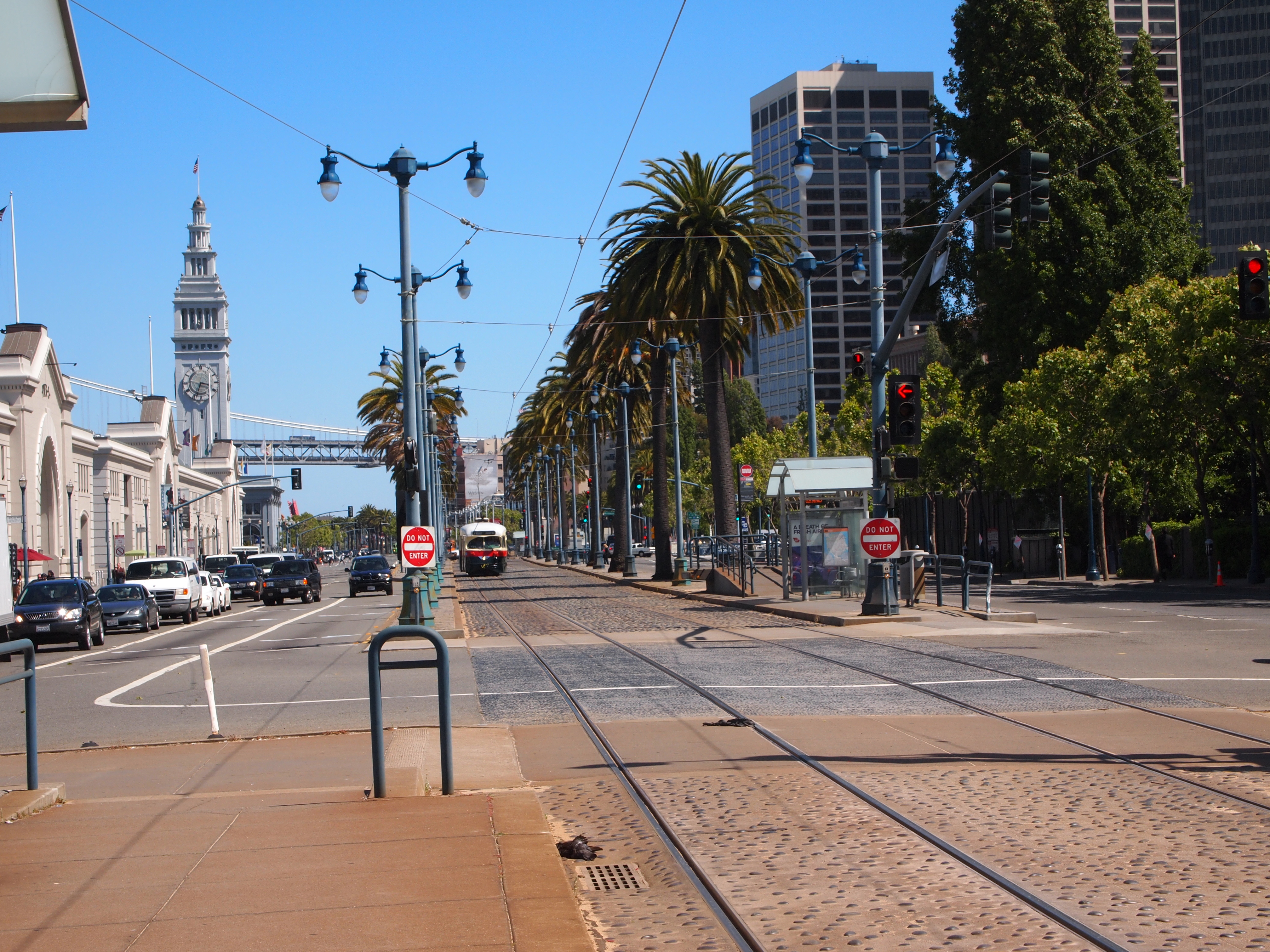 Looking down Embarcadero from Broadway towards the Ferry Building